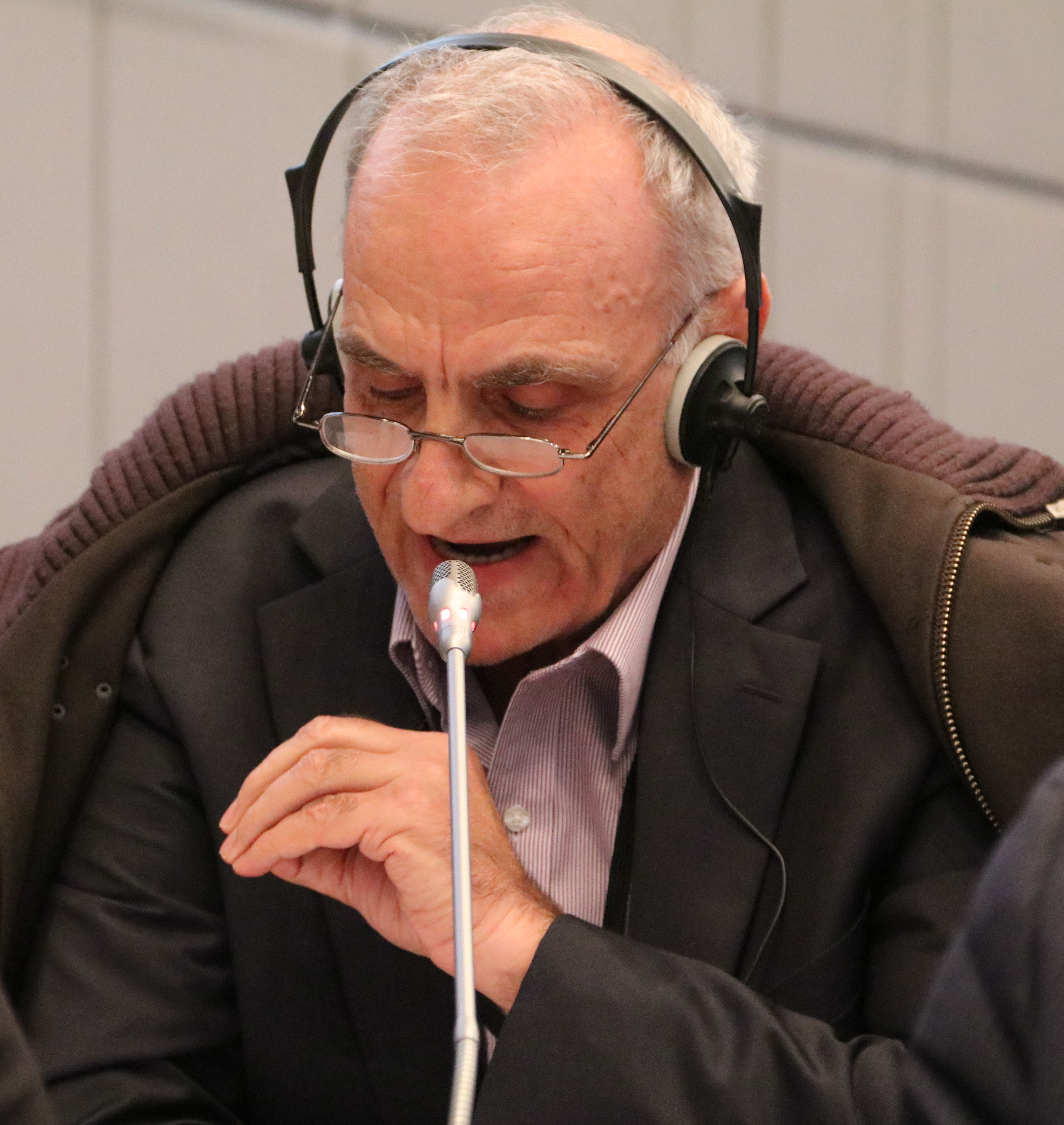 Georgios Varemenos (Greece), Vienna, 24 February 2017